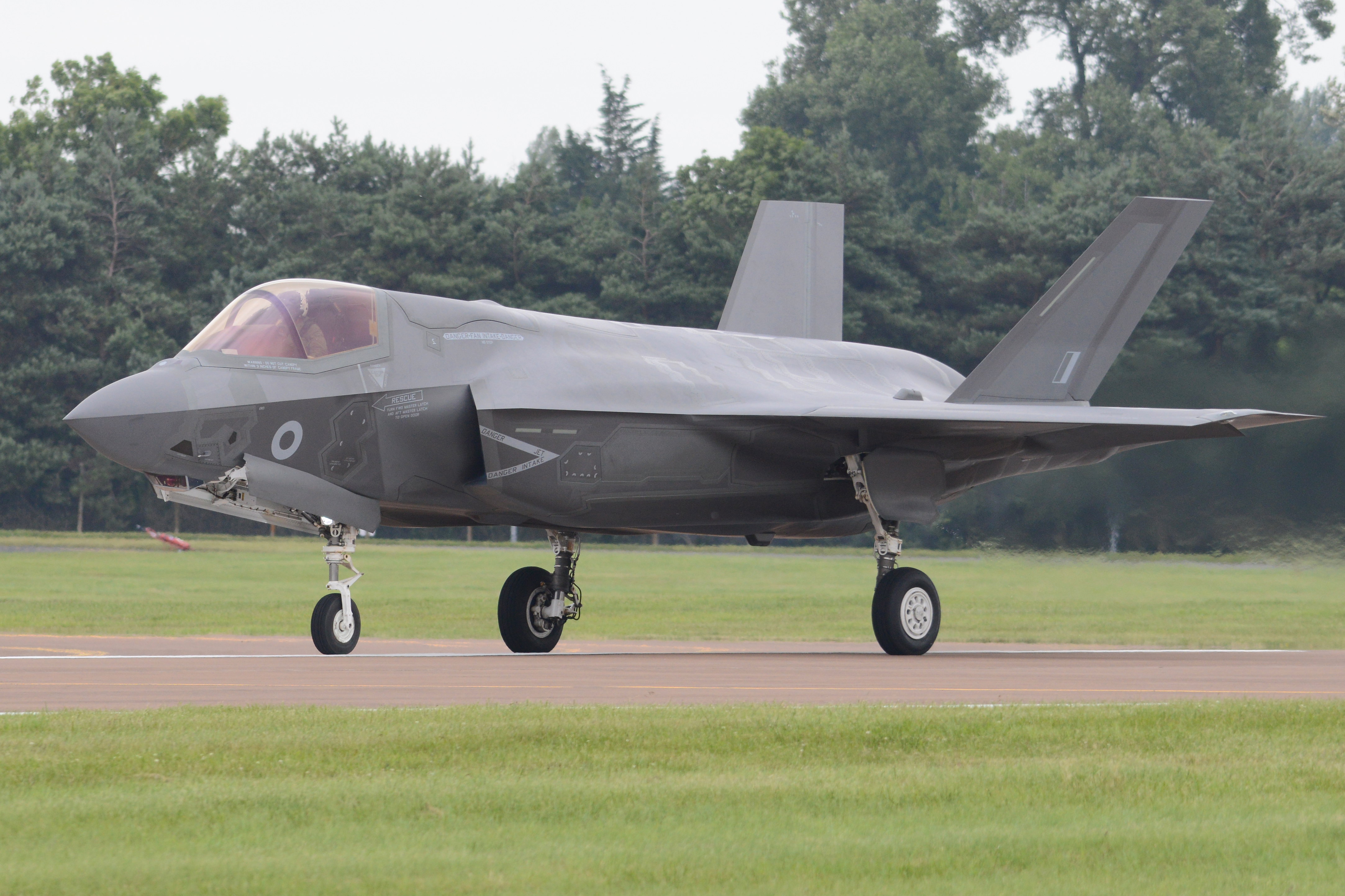 c/n BK-03. Also allocated US Navy Bureau No 168737. Operated by the F-35 Integrated Training Centre (ITC) based at Eglin AFB, Florida, USA. Seen making the types first UK appearance during the 2016 Royal International Air Tattoo (RIAT), Fairford, UK. Friday 8th July 2016